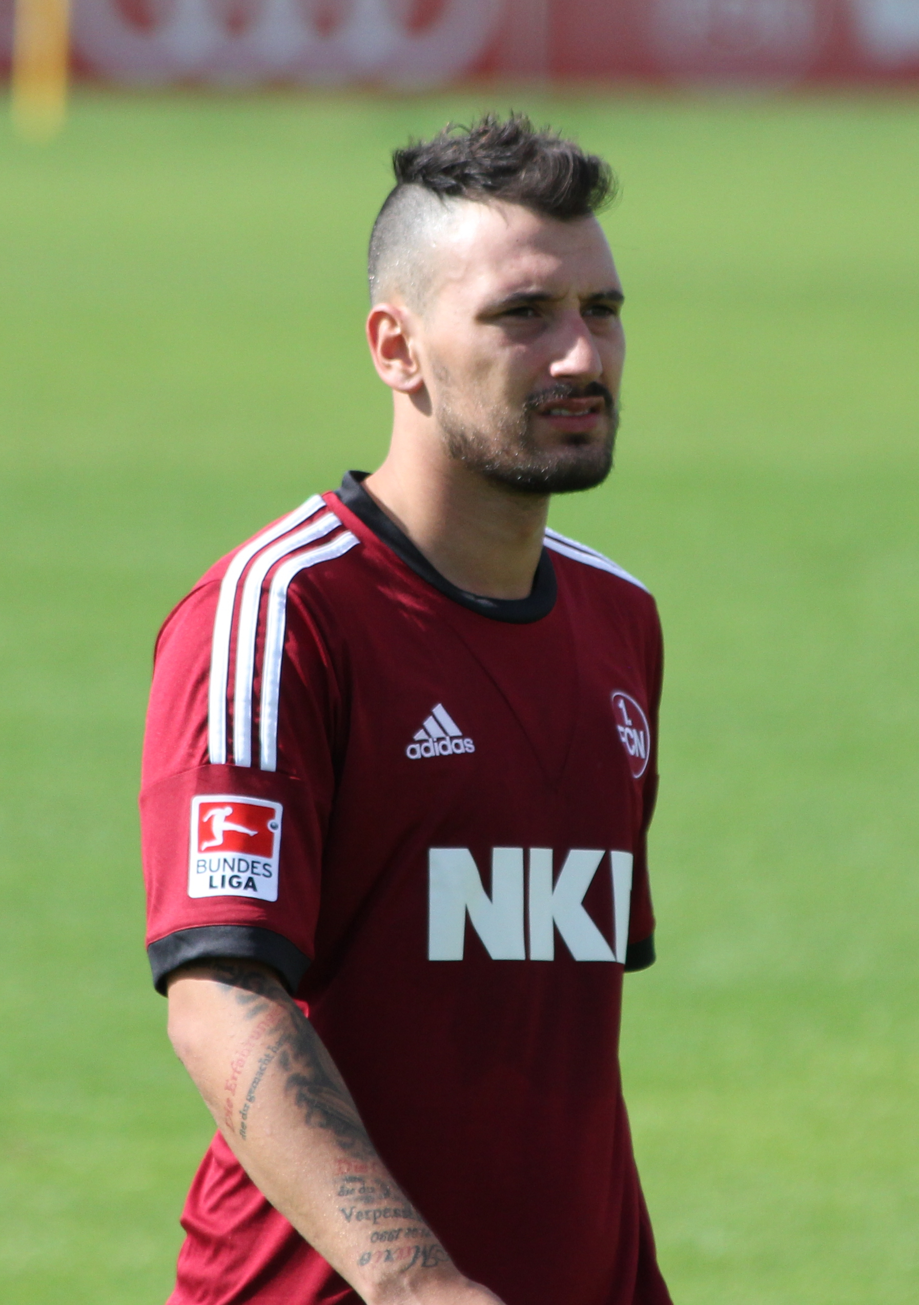 Timo Gebhart, football player for German side 1. FC Nürnberg, 2012/13 season, first training session